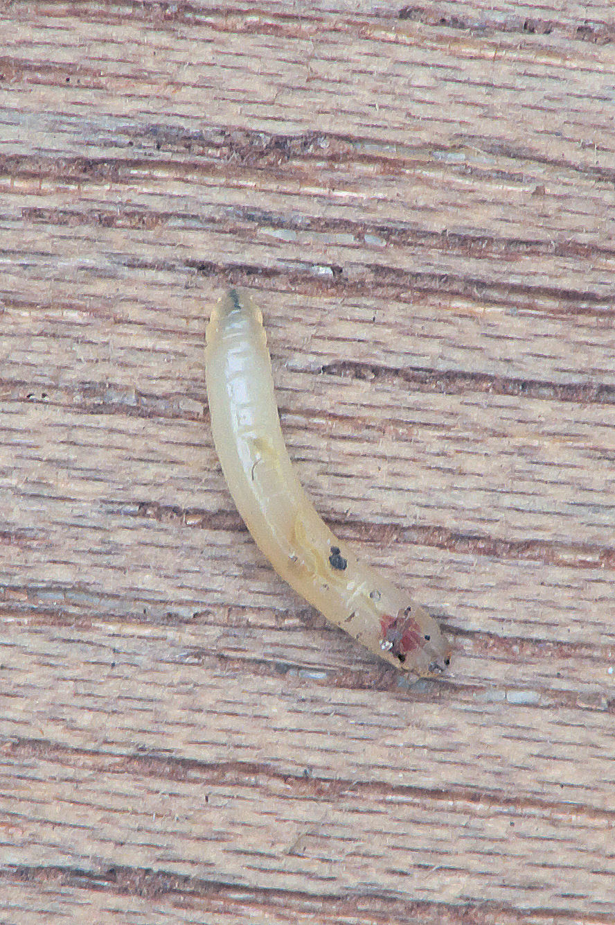 Chamaepsila rosae syn.Psila rosae maggot